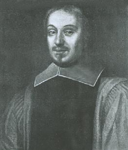 Portrait of a gentleman; once believed to be Richard Bellingham, governor of the Massachusetts Bay Colony.